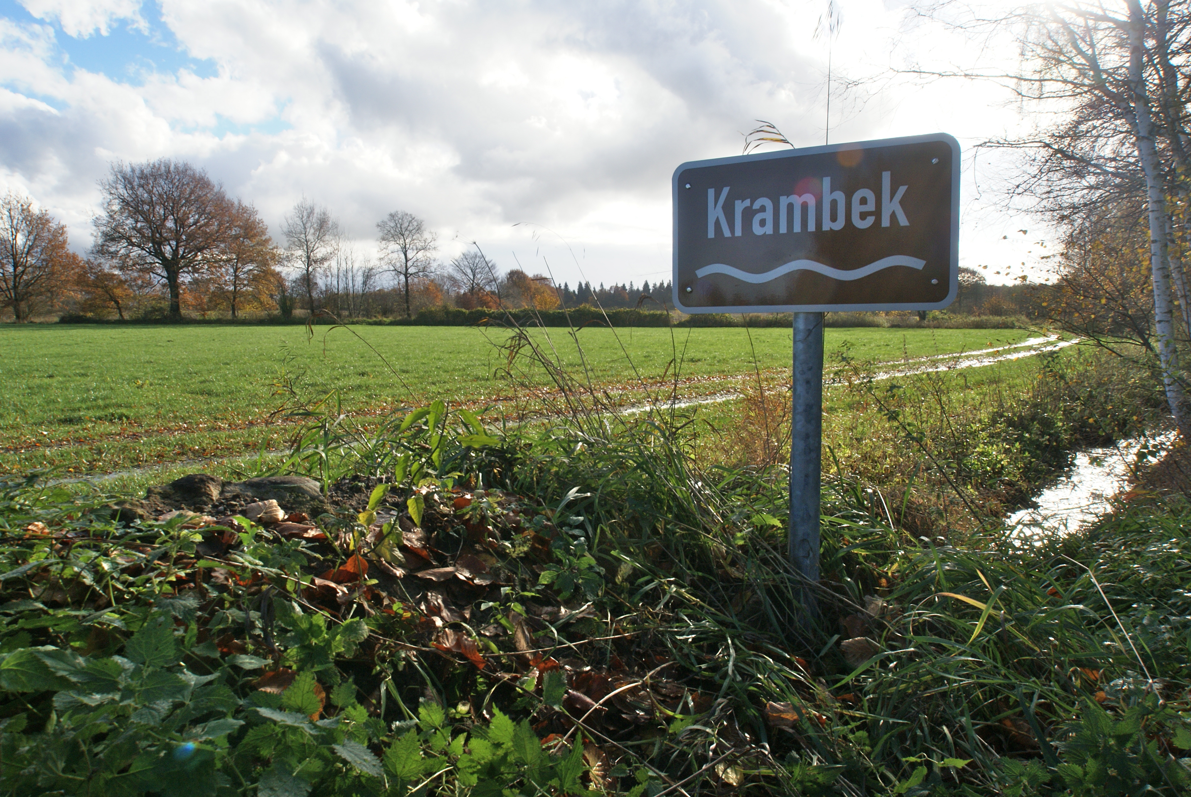 Kisdorf, Germany: Spring of the Krambek